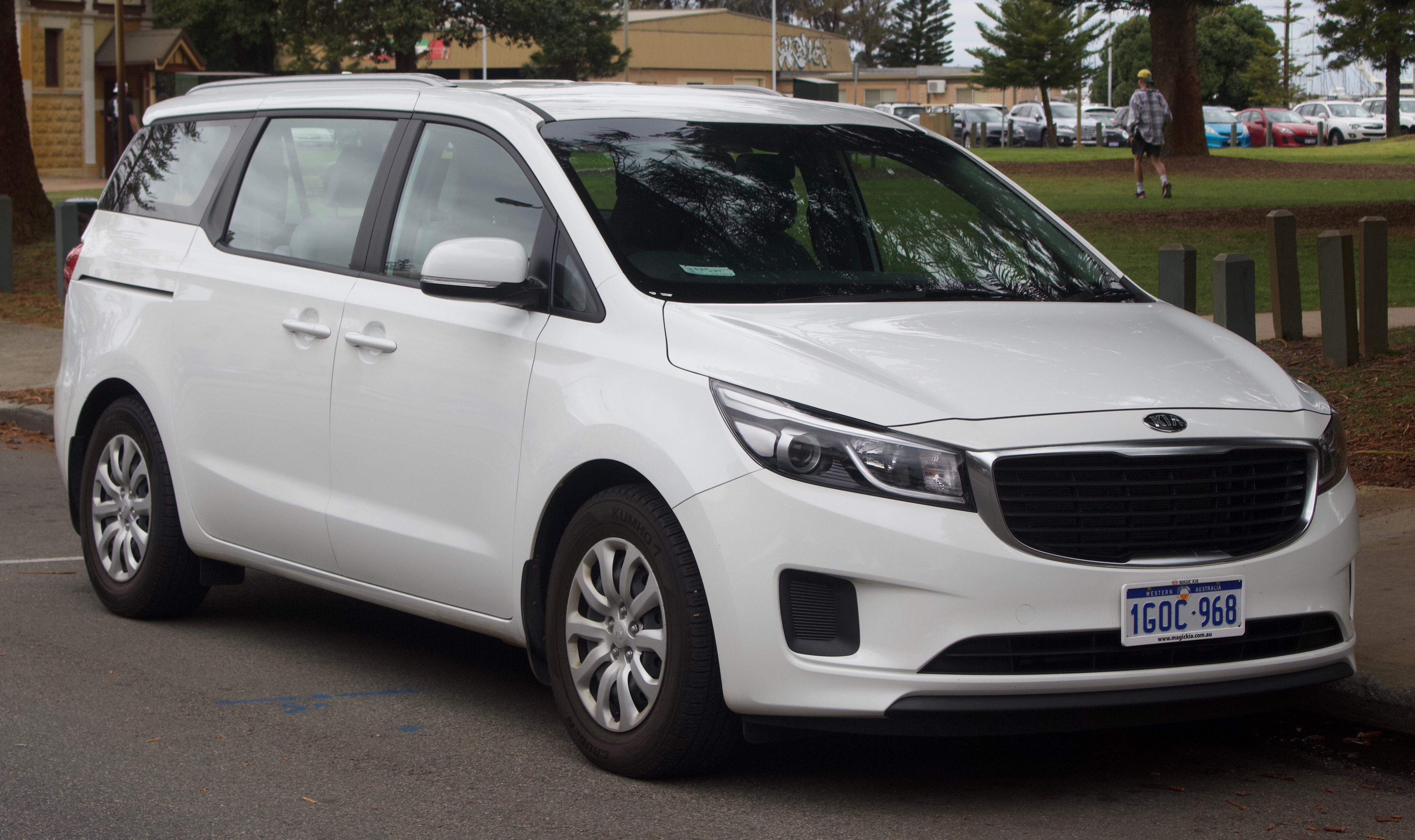 2018 Kia Carnival (YP MY18) S van. Photographed in Fremantle, Western Australia, Australia.